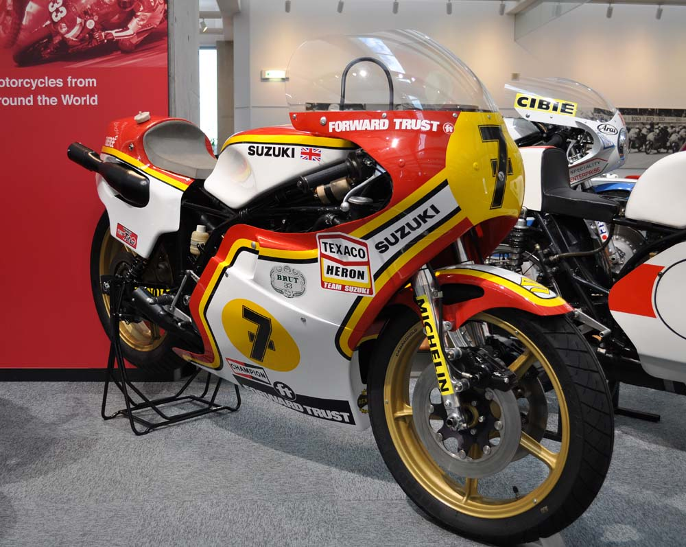 Suzuki RG500 (1977, Barry Sheene)